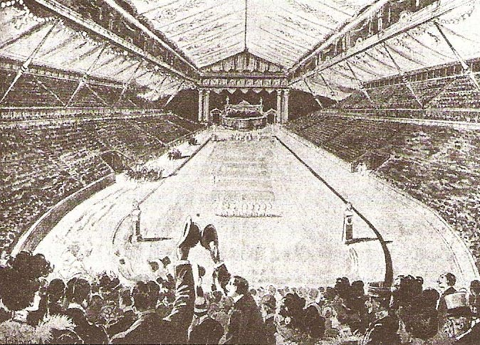 Projected Stadium for the 1900 Olympic Games drawing, reproduction, no restrictions on use